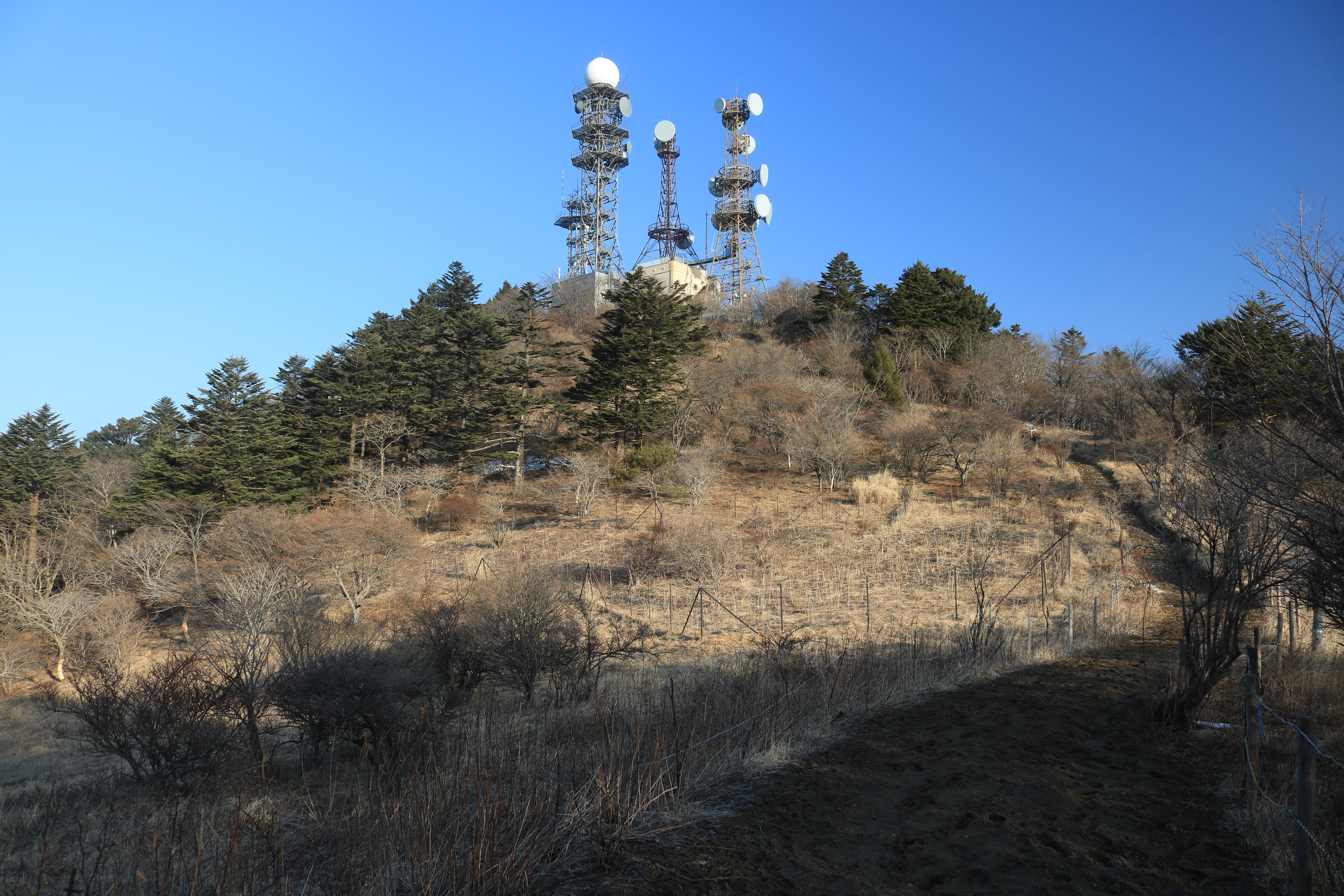 Mount Osutaka (Mitsutoge) in Misaka Mountains, Yamanashi Prefecture, Japan.